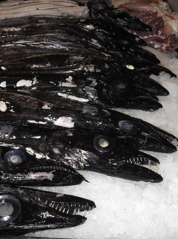 Aphanopus carbo in a fishmarket; Madeira.